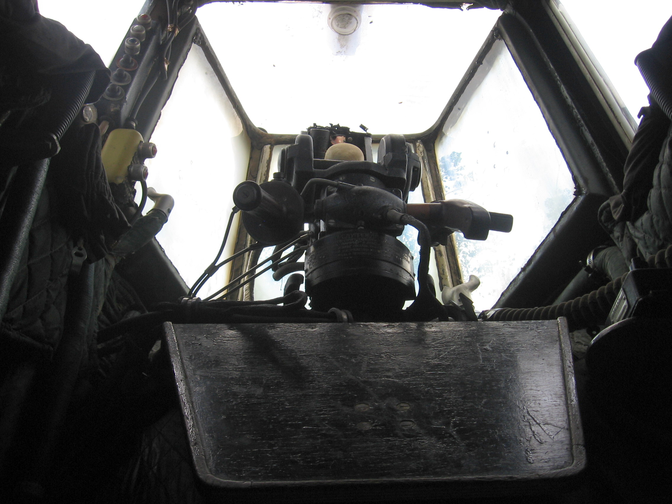 Interior of tail turret (Ilyushin Il-28), Kbely museum, Prague